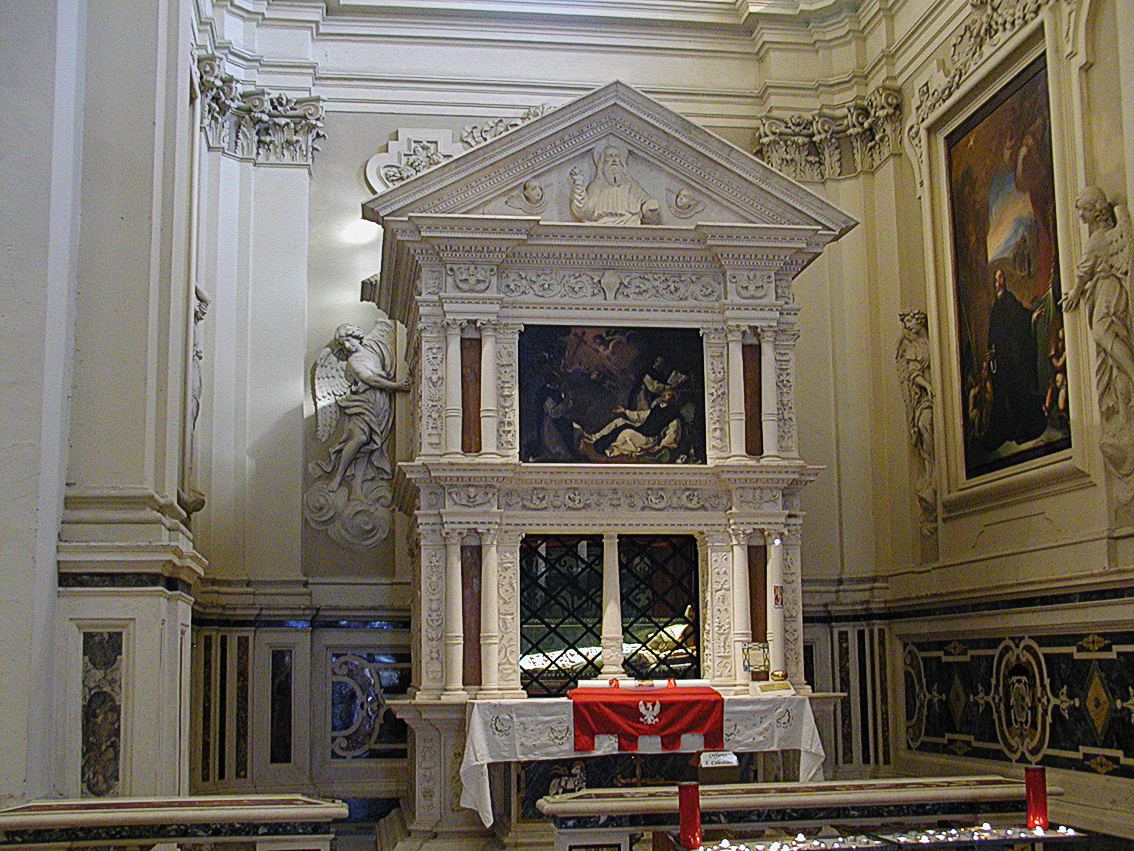 L'Aquila, Basilica di Santa Maria di Collemaggio. Mausoleum of Pope Celestine V by Girolamo da Vicenza (1517) in the north arm of the transept.